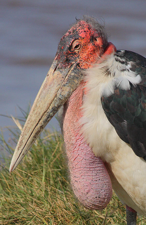 Image taken at Lake Nakuru, Kenya. An adult Marabou (Leptoptilos crumeniferus) resting up after a meal of flamingo. Despite suggestions to the contrary it does not sport scrotal neckware!